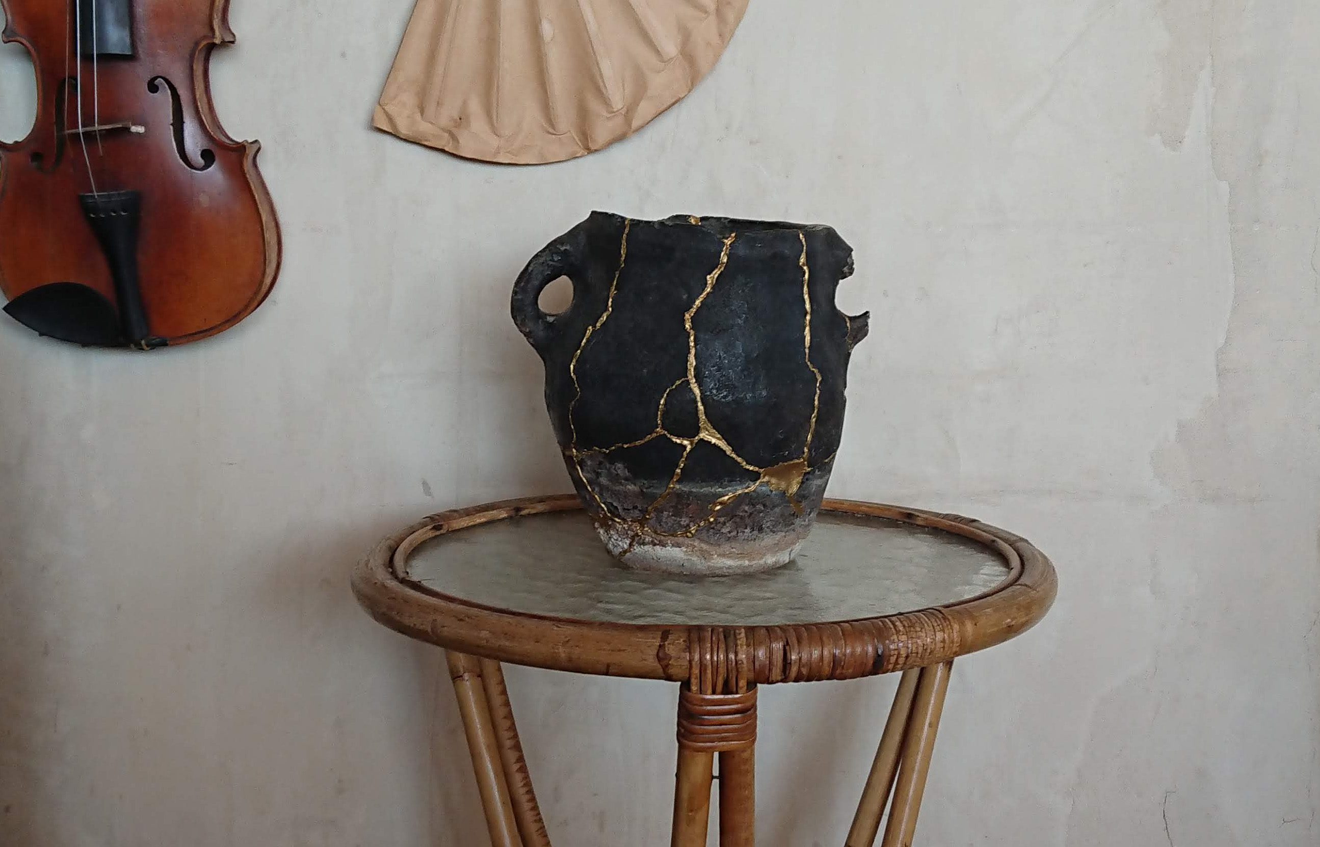 Rural cooking pot repaired with Kintsugi technique, Georgia, 19th century.